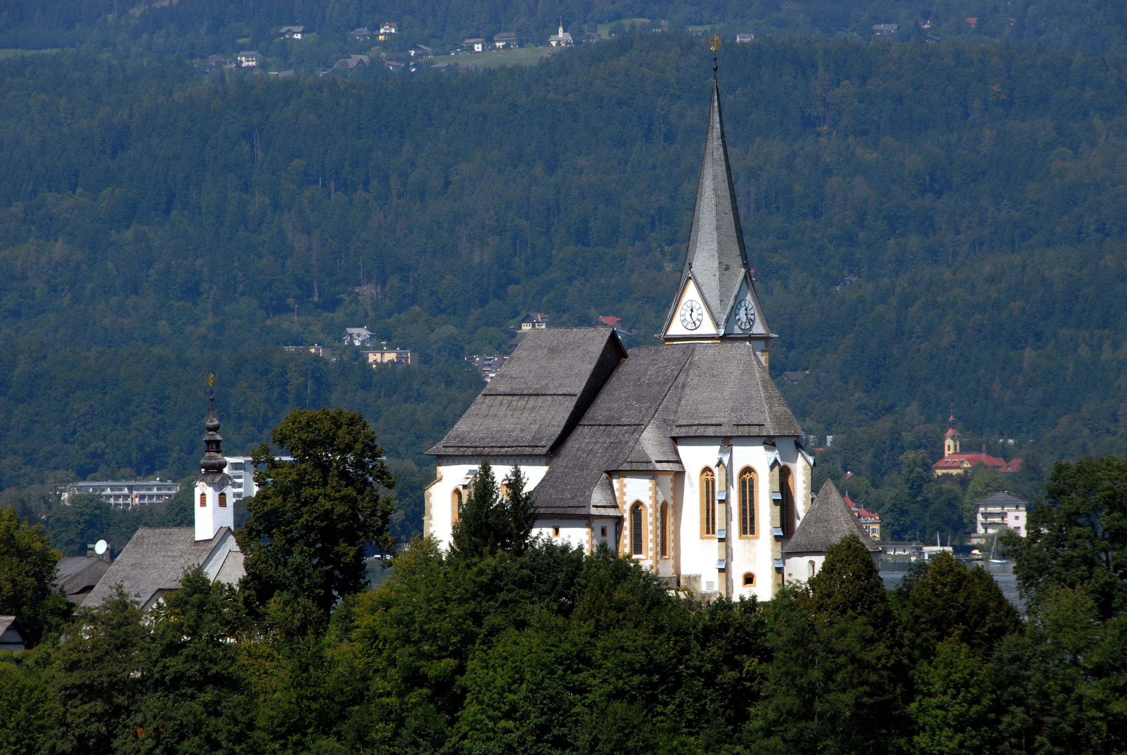 Winter church (left) and pilgrimage church Saints Primus and Felician, municipality Maria Wörth, district Klagenfurt Land, Carinthia ,Austria, EU